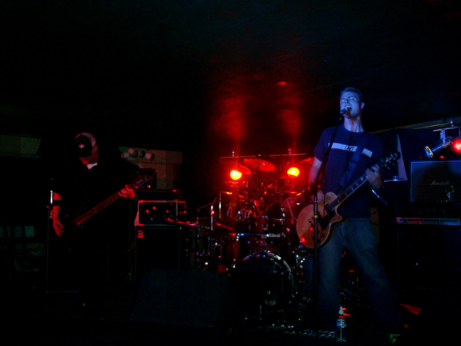 Early show from Another Single Day, public domain.